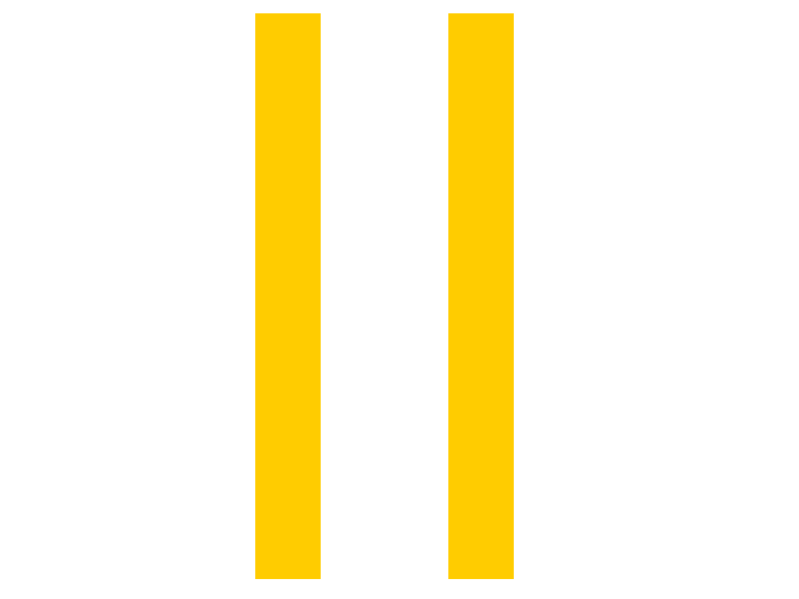 Mark of Ww2 GermanDivision Panzer 19 - 1943-1945